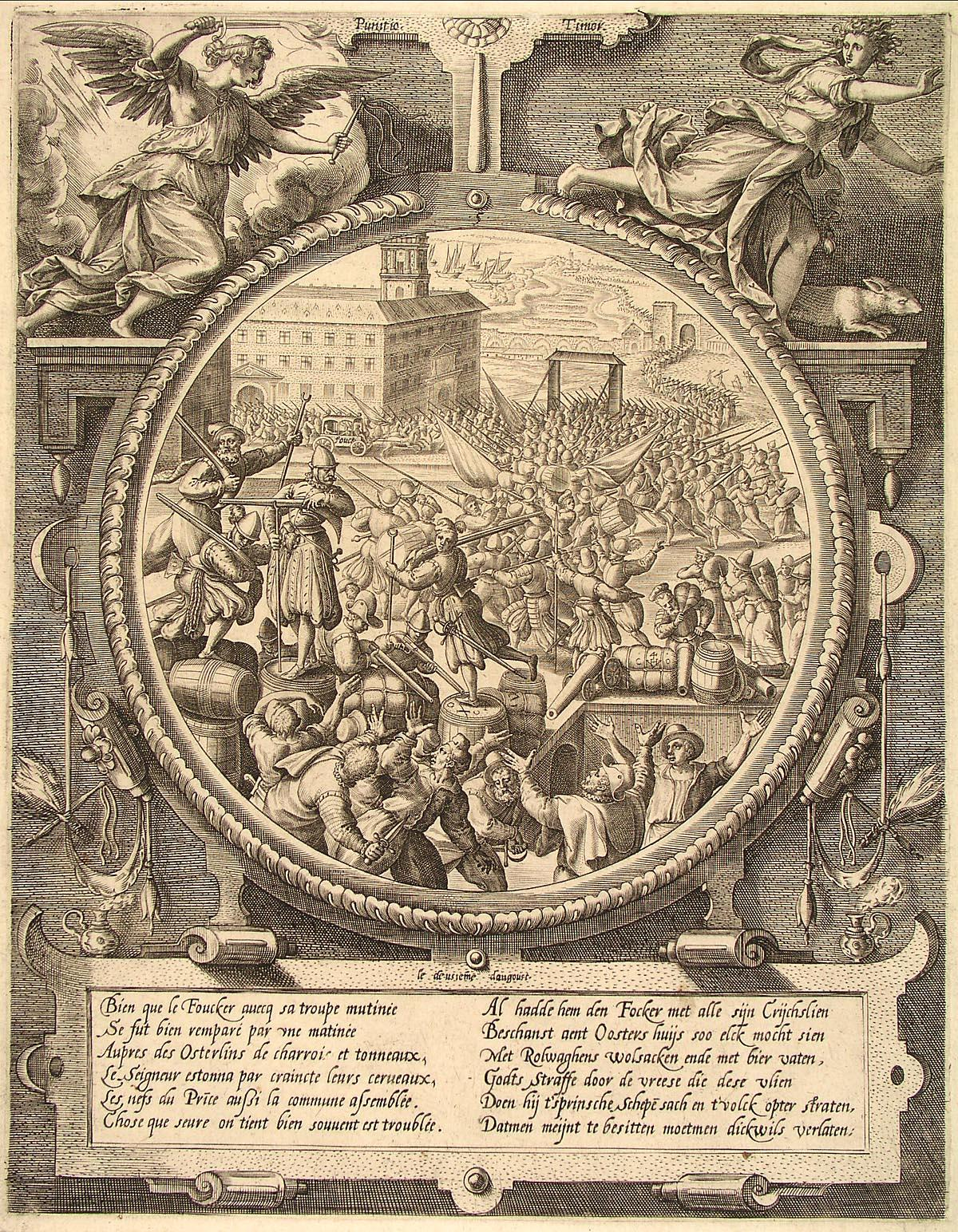 Part of the series {name }.